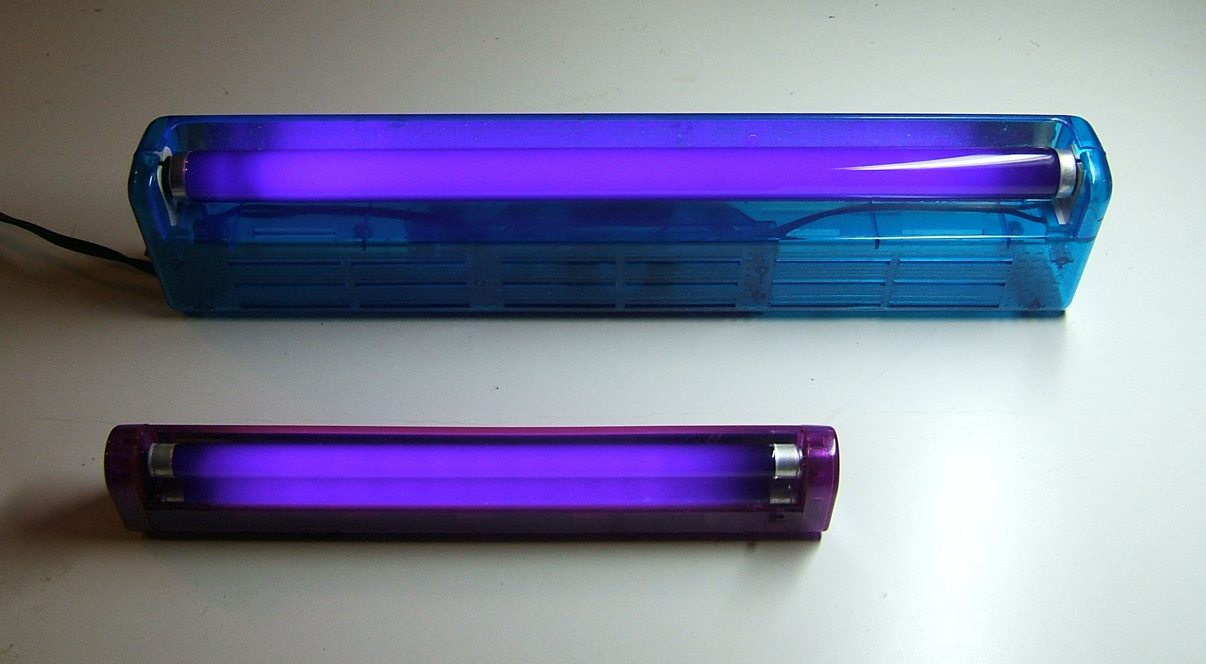 Two "black light" ultraviolet fluorescent lamps. The top one is an F15T8/BLB 18 inch 15 watt black light tube in a standard plugin fluorescent fixture. This is often used for special lighting effects, such as illuminating fluorescent posters. The bottom one is an F8T5/BLB 11 inch 8 watt tube in a portable black light, with a solid state ballast, run by eight AA size batteries. It is sold as a pet urine detector, to make urine stains on carpet and furniture visible by its fluorescence. Both radiate "long-wave" or UVA ultraviolet radiation, with a wavelength in the range 350 to 370 nm. The purple glow of the tubes is not the ultraviolet light itself, which is invisible, but visible purple light from mercury's 404 nm spectral line which leaks through the dark blue filter coating on the glass tube. This purple color is not quite accurately represented in this photo, due to differences between the color response of the camera sensor and the human eye.